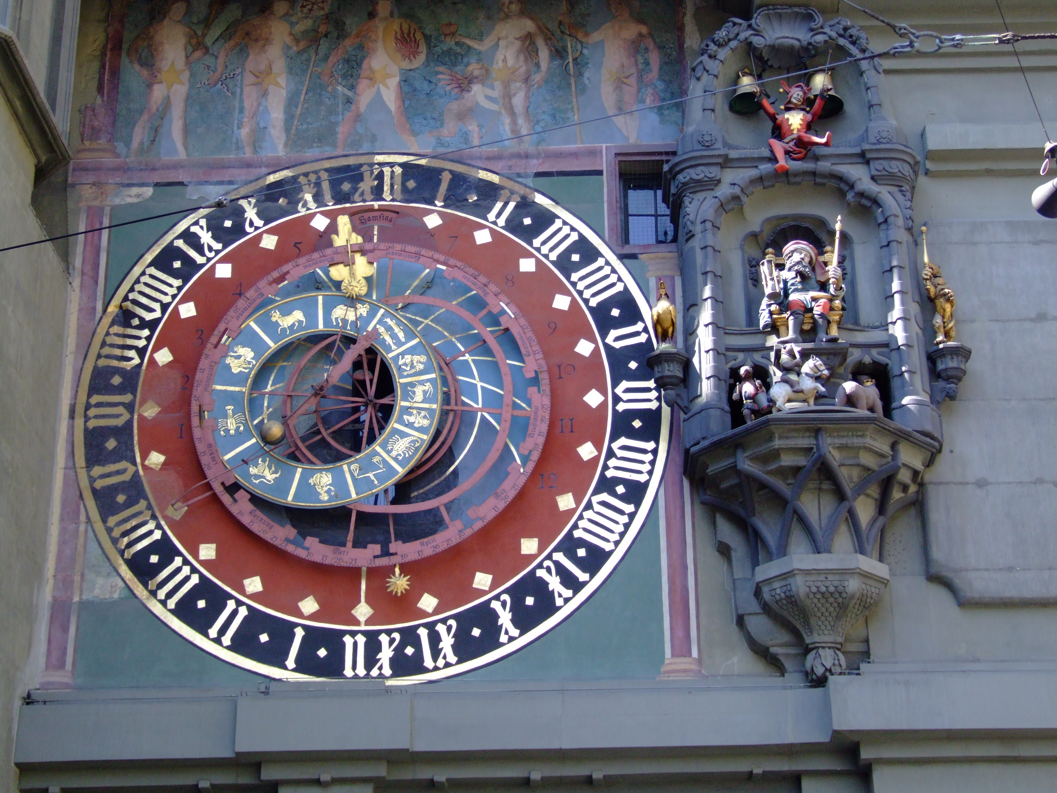 The astronomical clock on Zytglogge, Bern